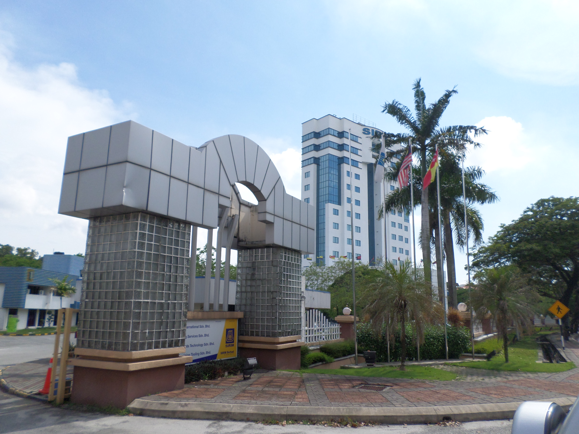 Standards and Industrial Research Institute of Malaysia, Shah Alam, Selangor, MalaysiaBahasa Melayu: Institut Piawaian dan Penyelidikan Perindustrian Malaysia, Shah Alam, Selangor, Malaysia